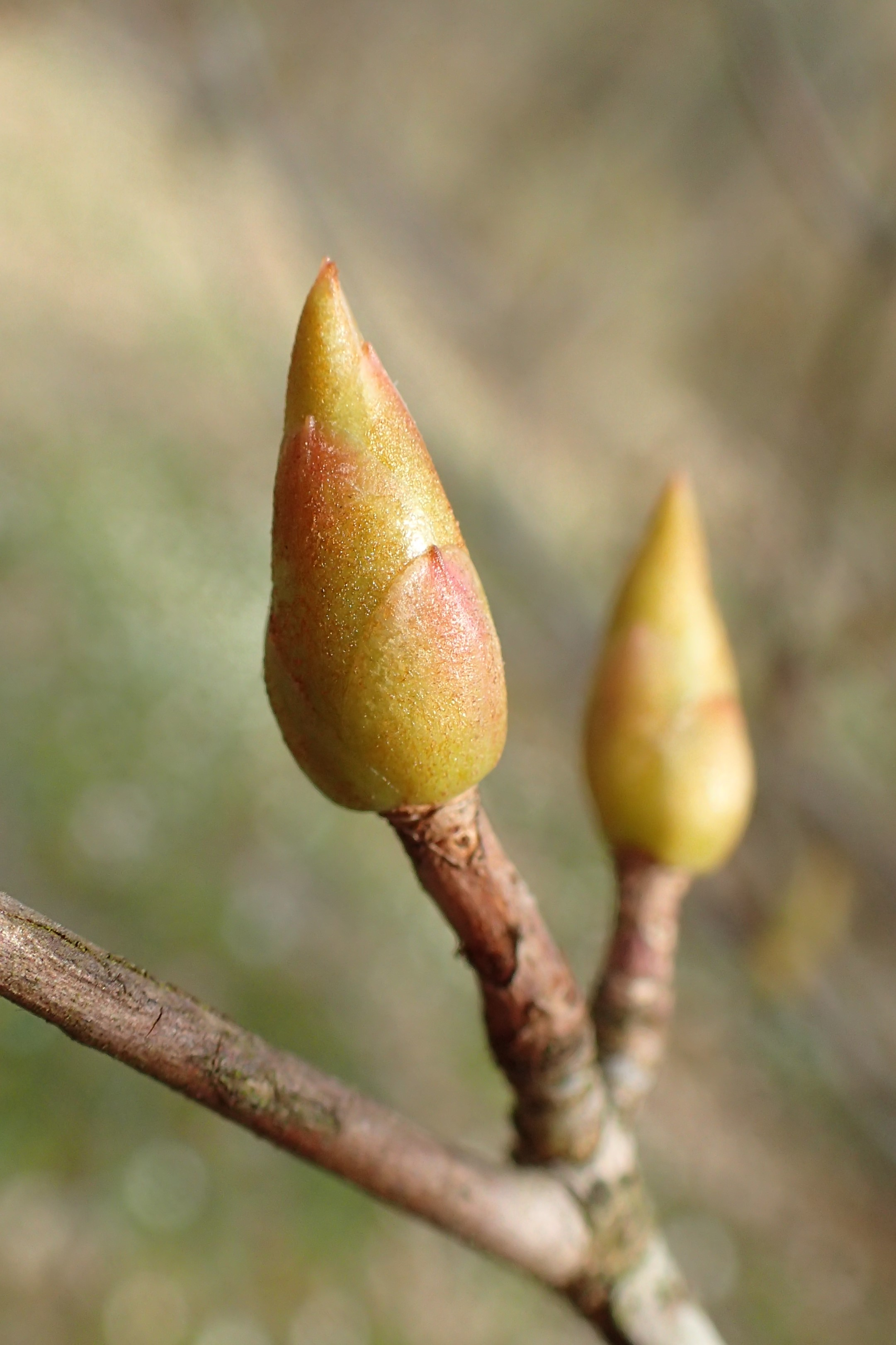 Enkianthus campanulatus in Arboretum Rogow